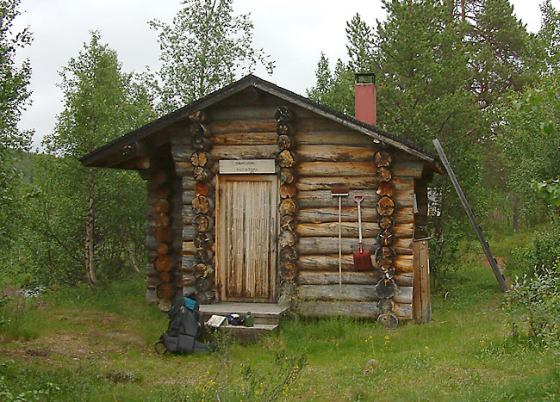 The Oahujoki Wilderness Hut in the Lemmenjoki National Park, in Inari, Finland.